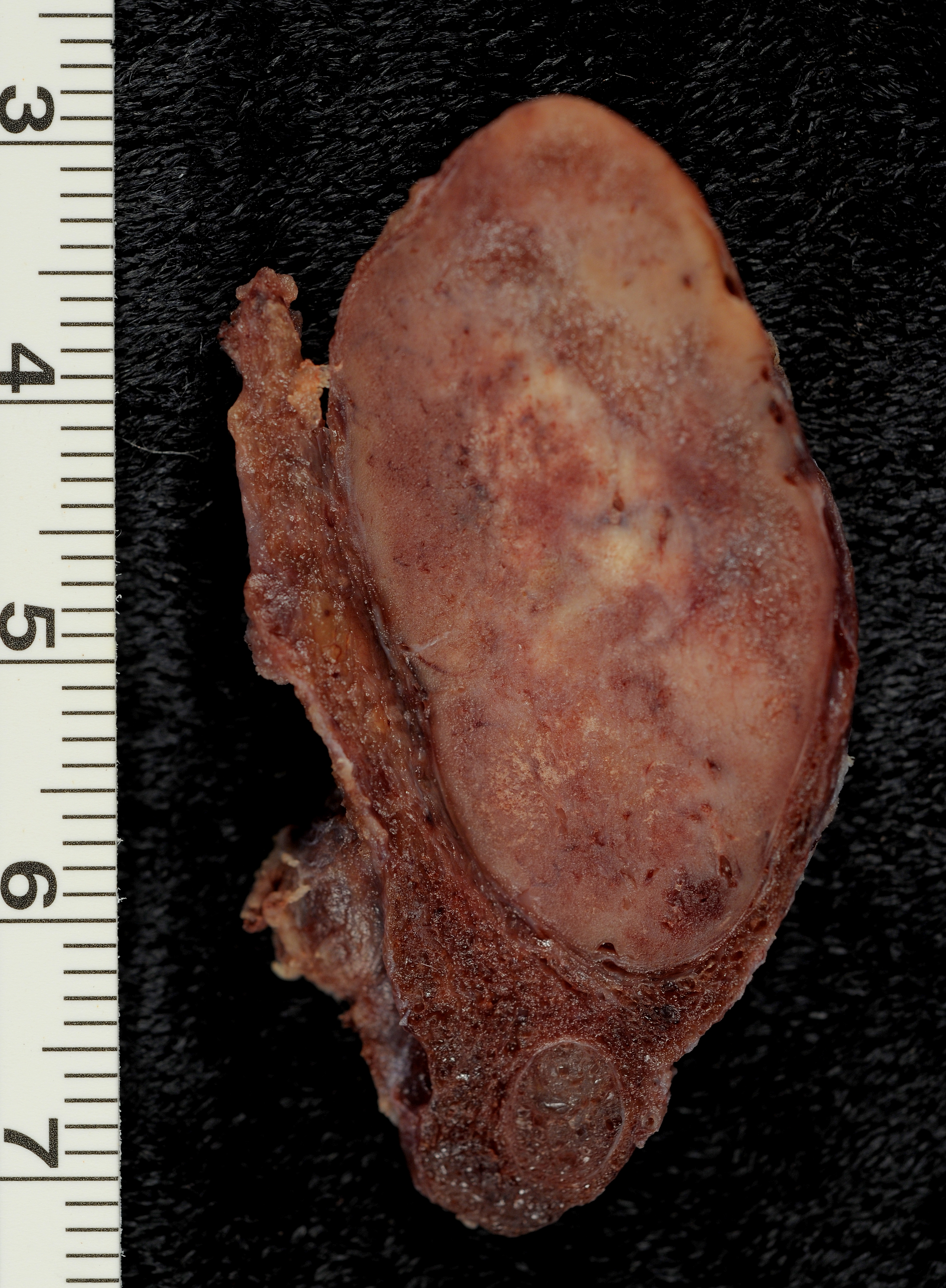 Follicular Adenoma of the Thyroid Gland Pathological and histological images courtesy of Ed Uthman at flickr.